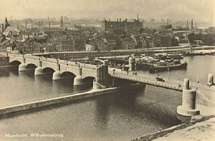 Wilhelmina Bridge Maastricht, The Netherlands